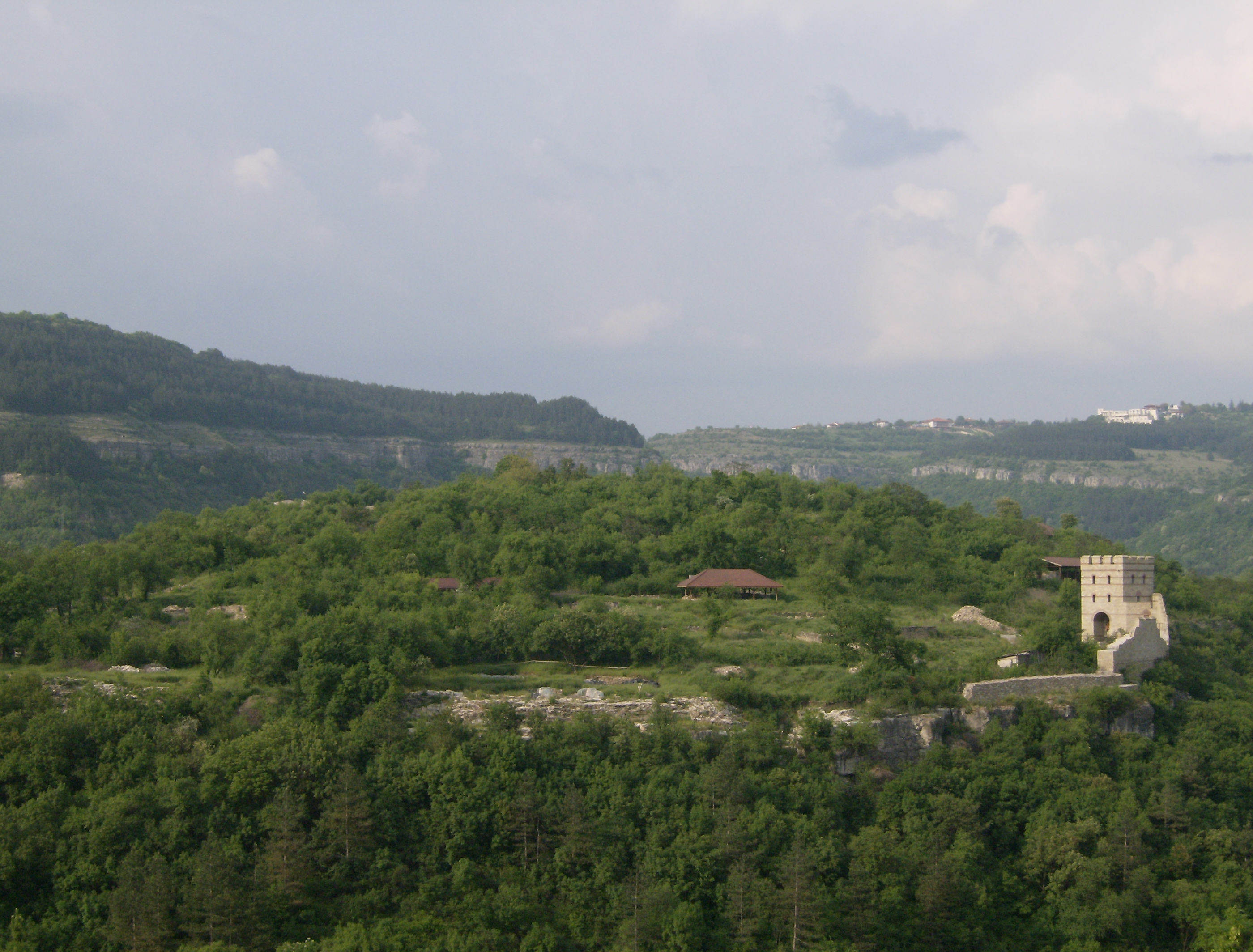 Trapezitca, Veliko Turnovo